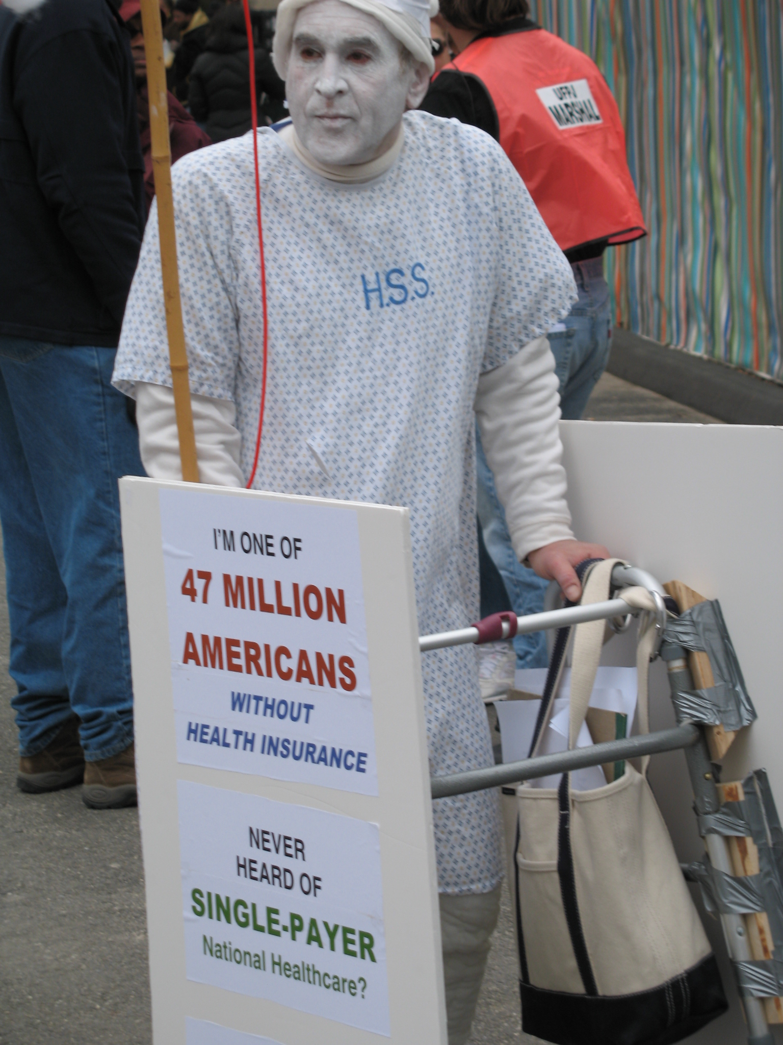 Supporter of a single-payer health care plan demonstrates at an April 4, 2009 "March on Wall Street" in New York City's Financial District